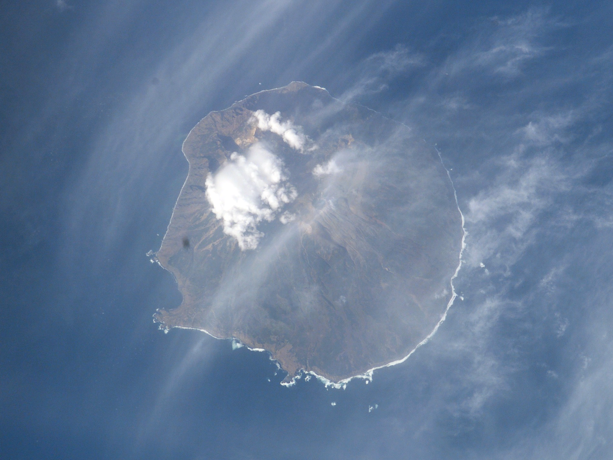 NASA picture of Ketoy Island